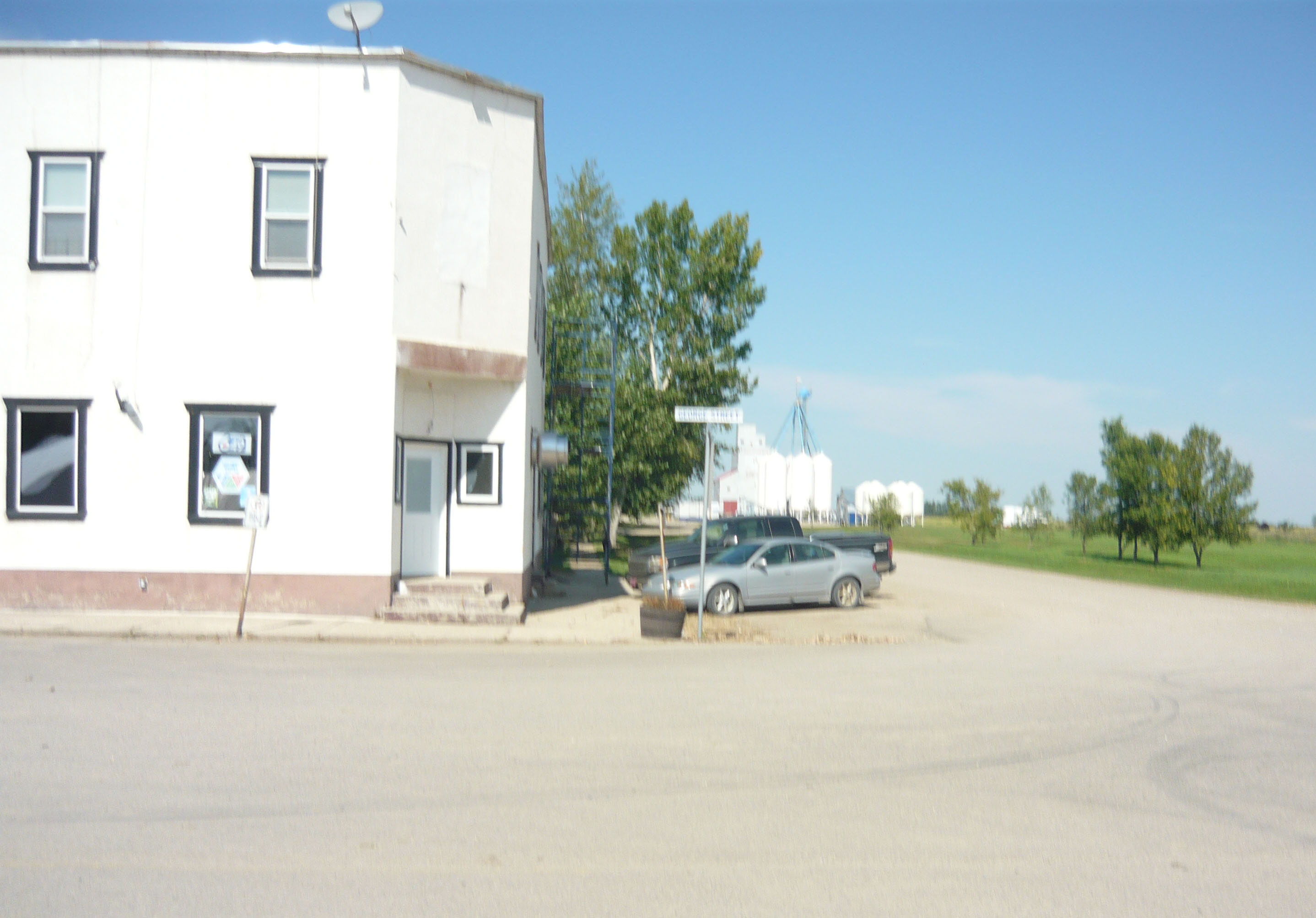 Simpson Hotel and grain elevator, Railway Avenue (at intersection of George Street), Simpson, Saskatchewan, Canada.